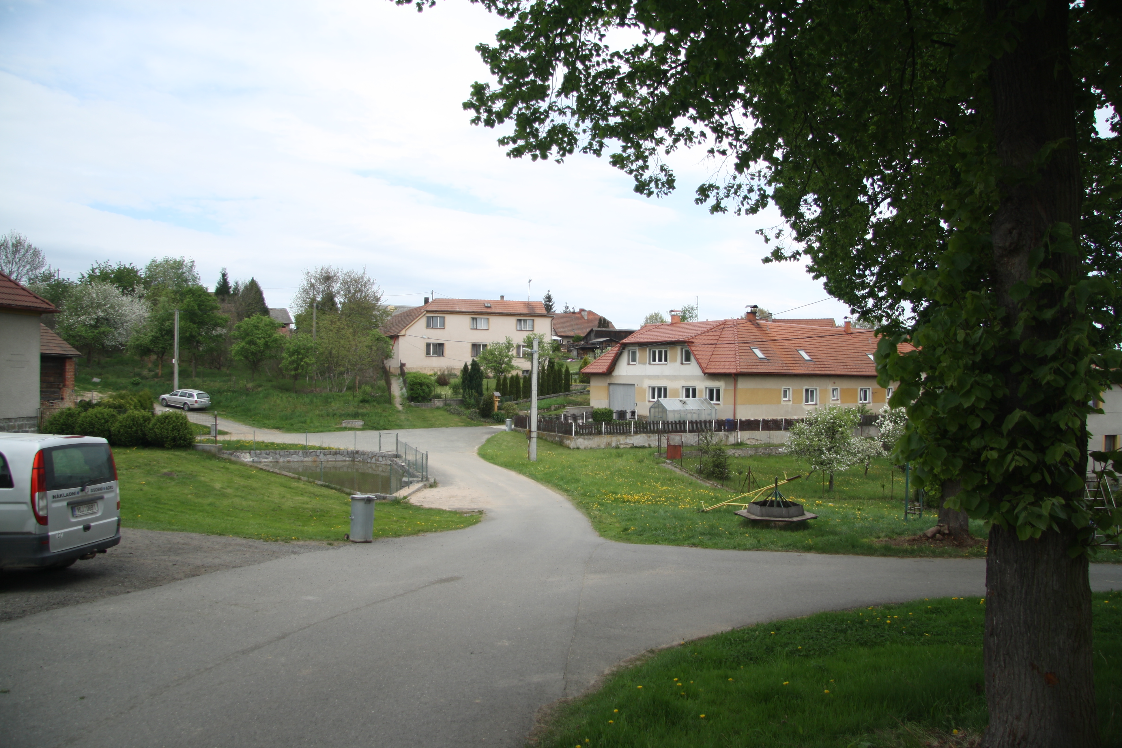 Center of Kuňovice, Benešov District.